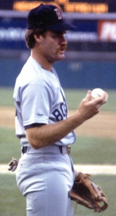 Wade Boggs in pre game warmups at Baltimore's Memorial stadium in 1988.